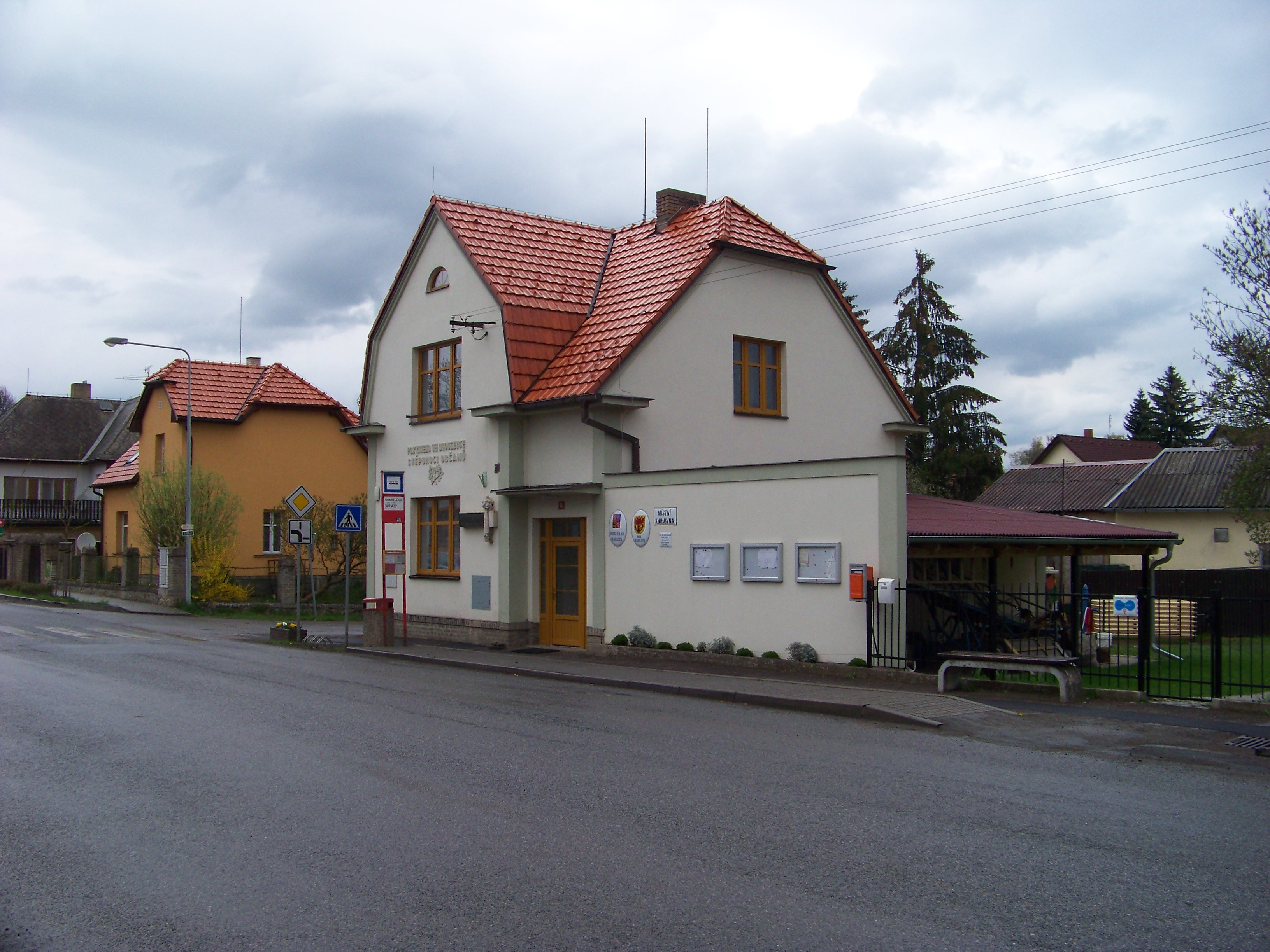 Drahelčice, Prague-West District, Central Bohemian Region, Czech Republic. Na Návsi 25 (municipal office), 49. - Google Maps - Google Earth